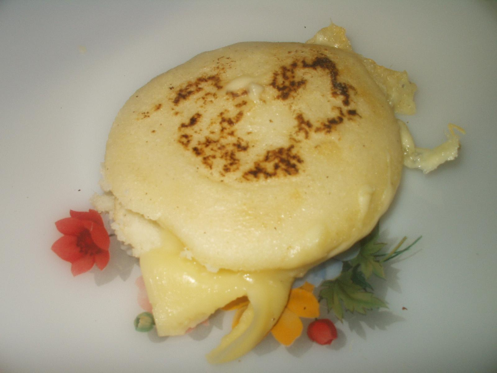 Variety of Venezuelan arepas